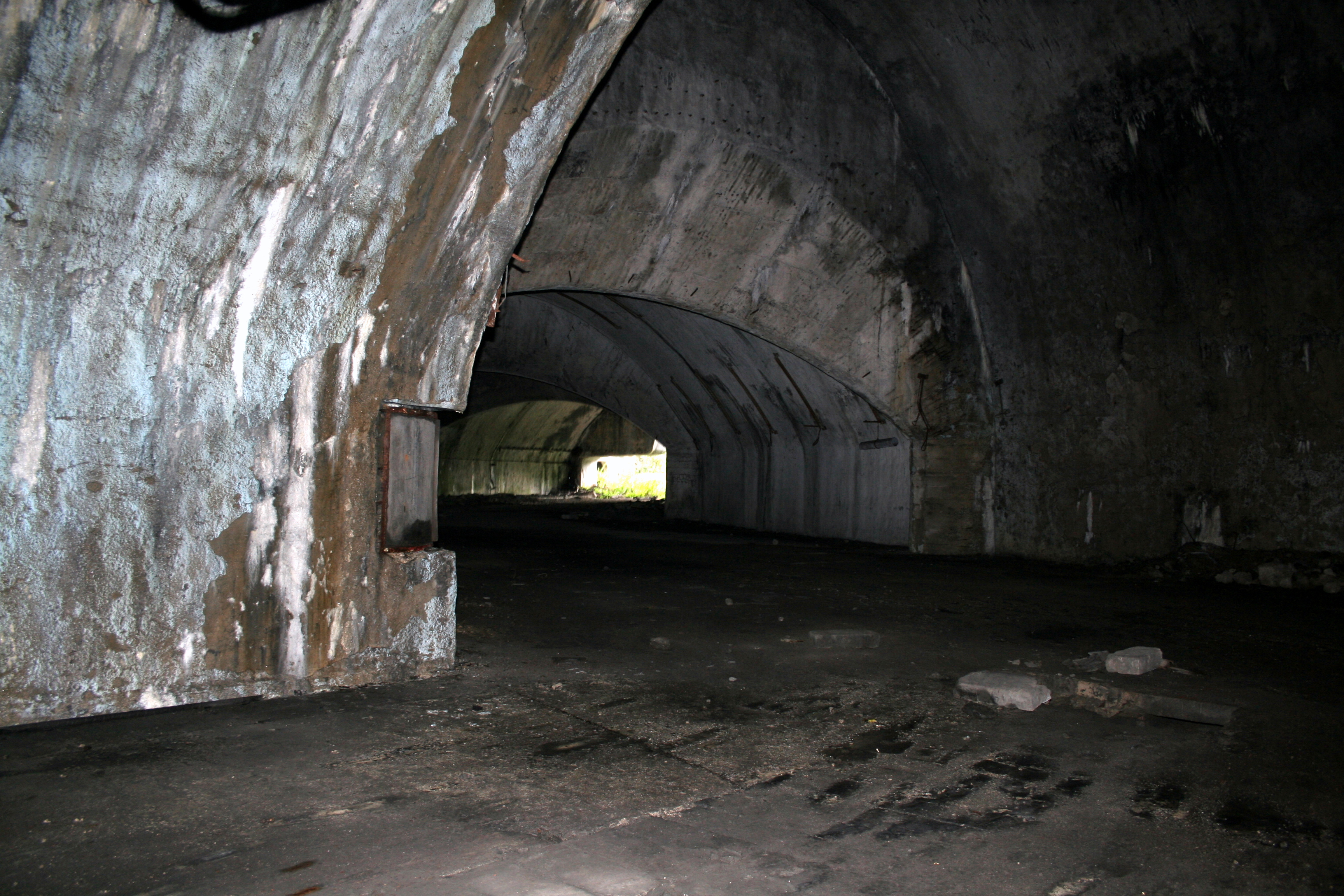 Airfield Željava - entrance 2